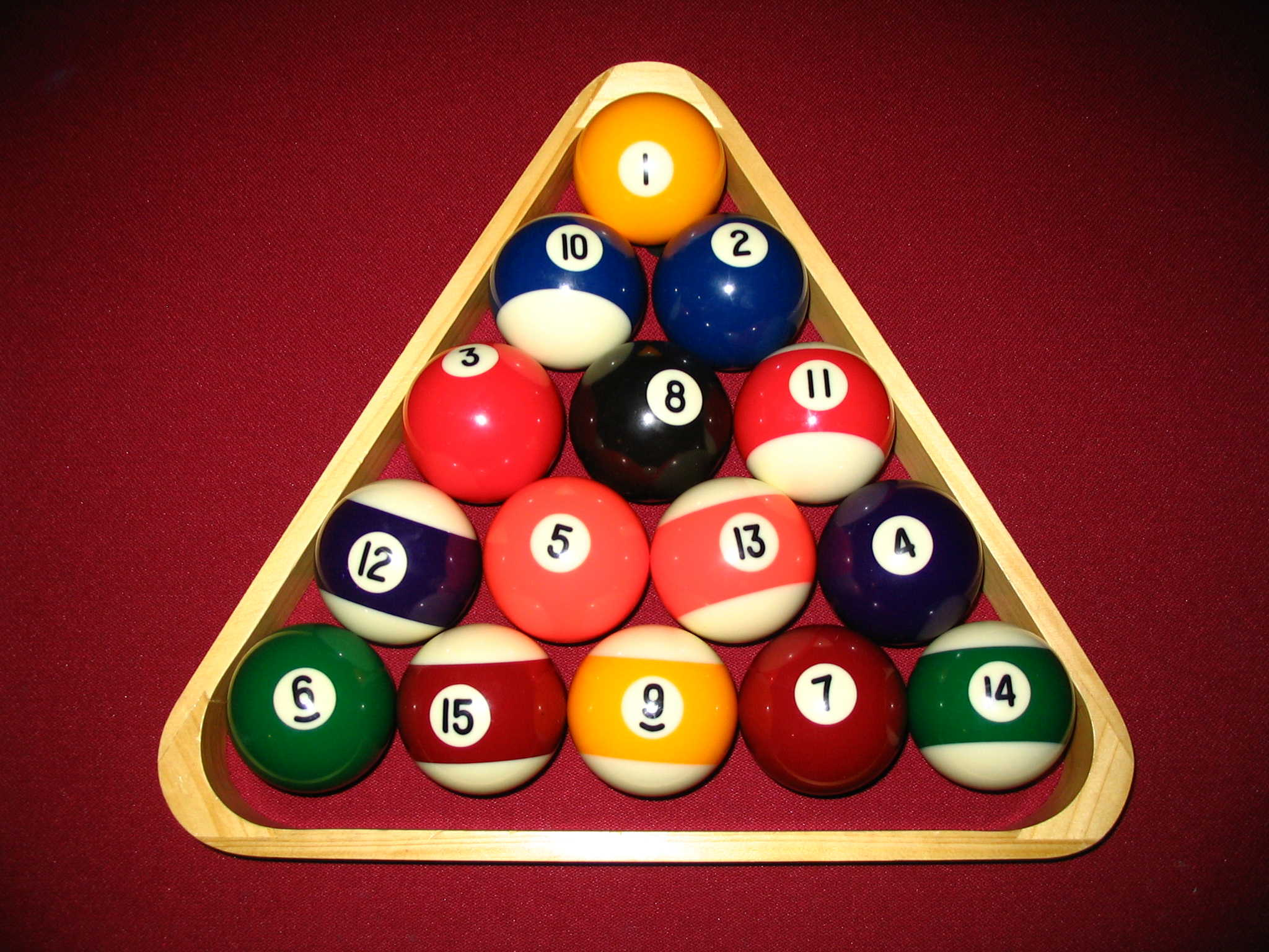 I took this photo on Feb 9, 2006.